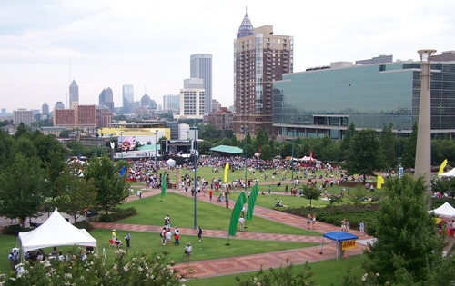 The view across Centennial Olympic Park from the roof of the Chamber of Commerce. The Inforum--site of ACOG headquarters--is on the right. (ATR)